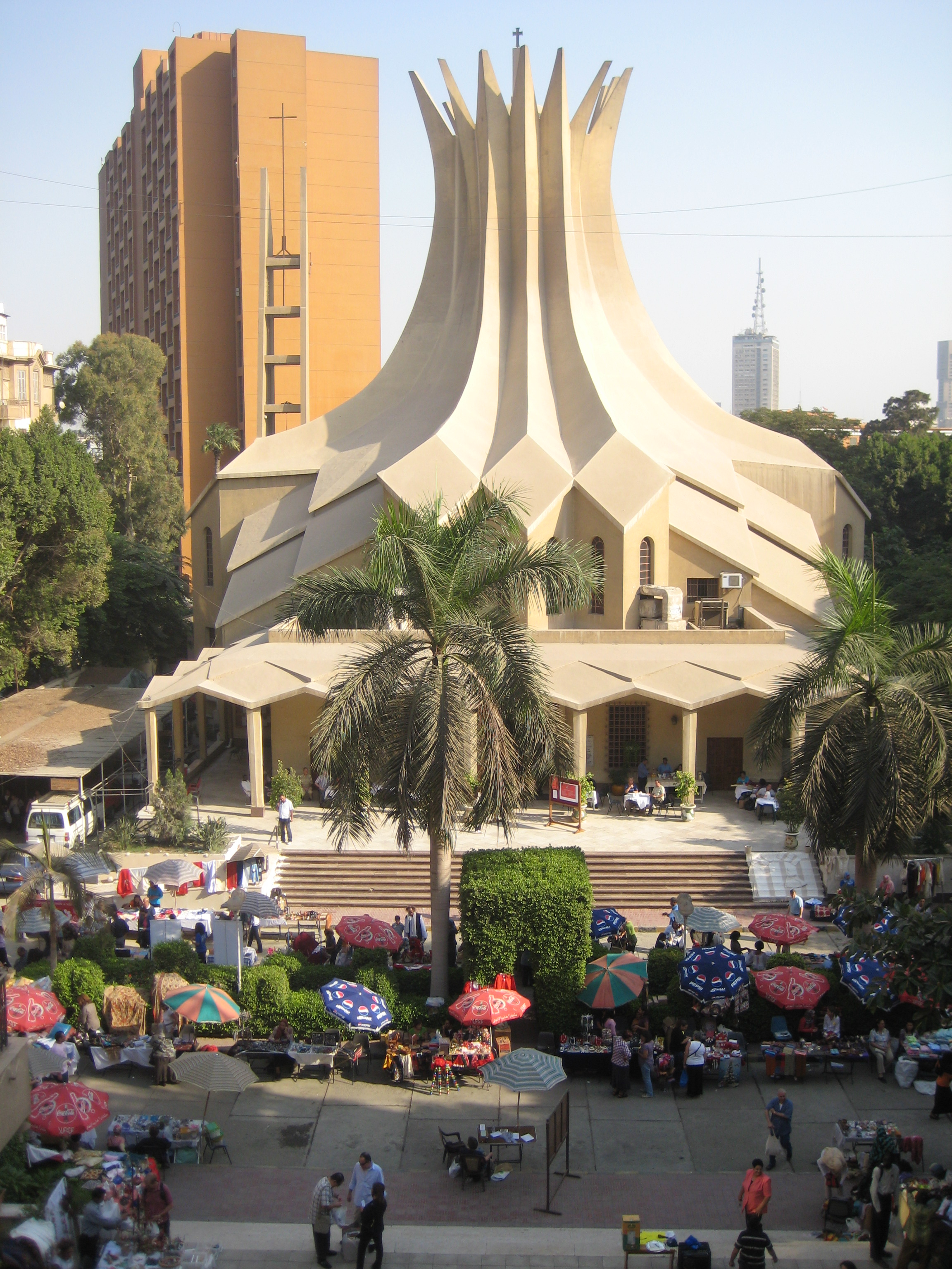 This is the Cathedral of the Anglican/Episcopal Church in Cairo during the annual Charity Bazaar